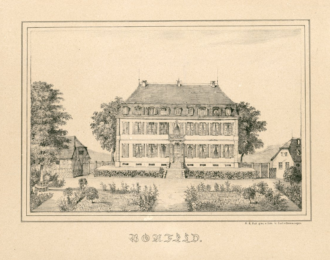 View of the Unteres Schloss in Bonfeld (today a suburb of Bad Rappenau, Germany), a lithography n[ach] d[er] Nat[ur] gez[eichnet] u[nd] lith[ographiert] v[von] Carl v[on] Gemmingen (“drawn according to nature and lithographed by Carl von Gemmingen”).